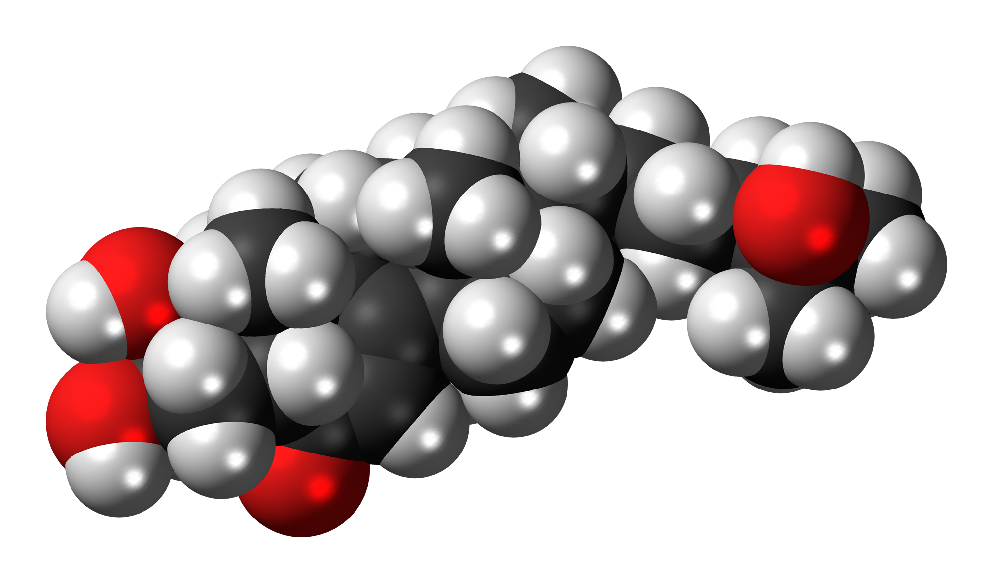 Space-filling model of the ecdysone molecule, a steroid hormone used in insects. Colour code: Carbon, C: black Hydrogen, H: white Oxygen, O: red